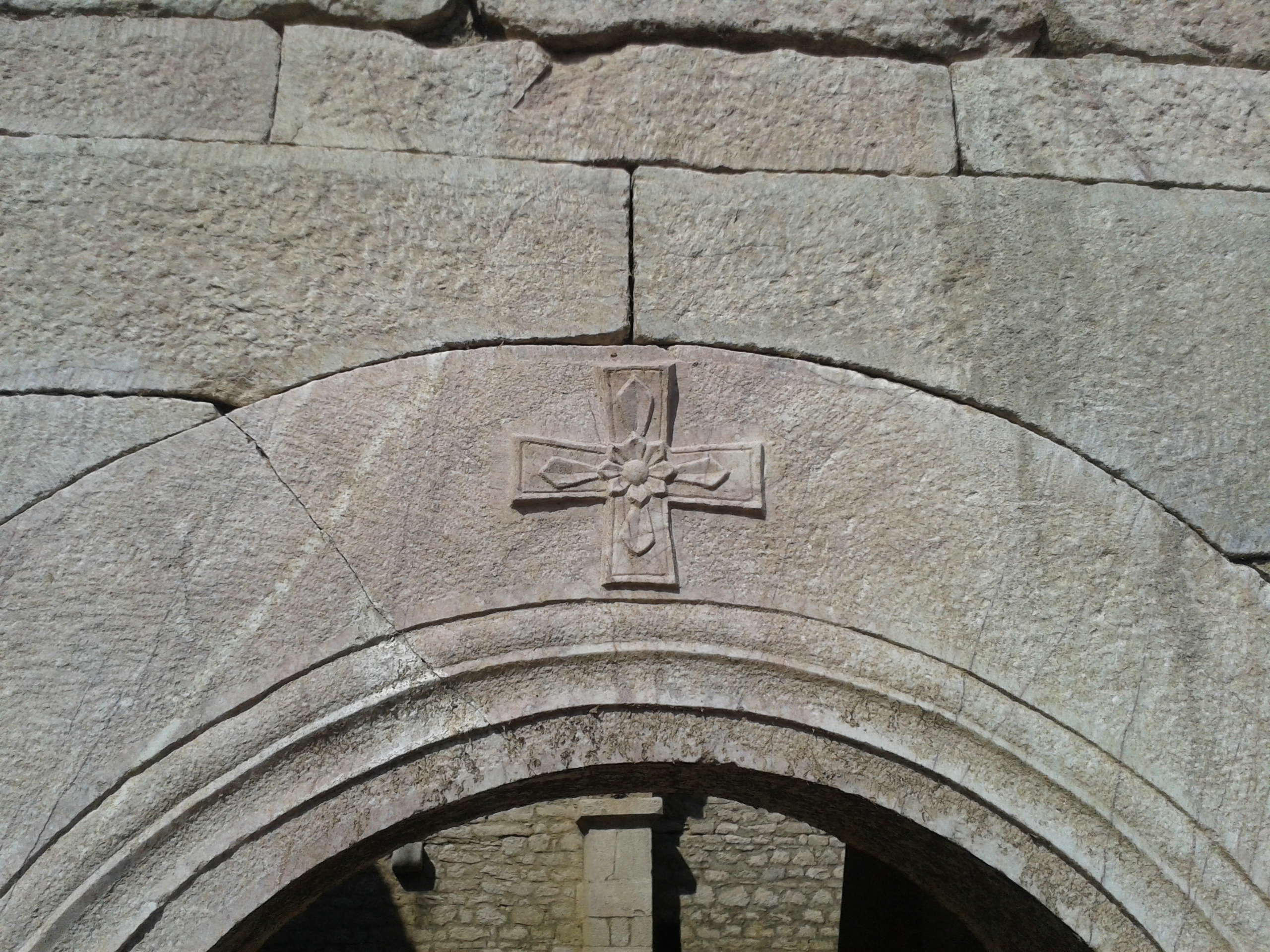 Submerged church of St. Nicholas (Mavrovo)